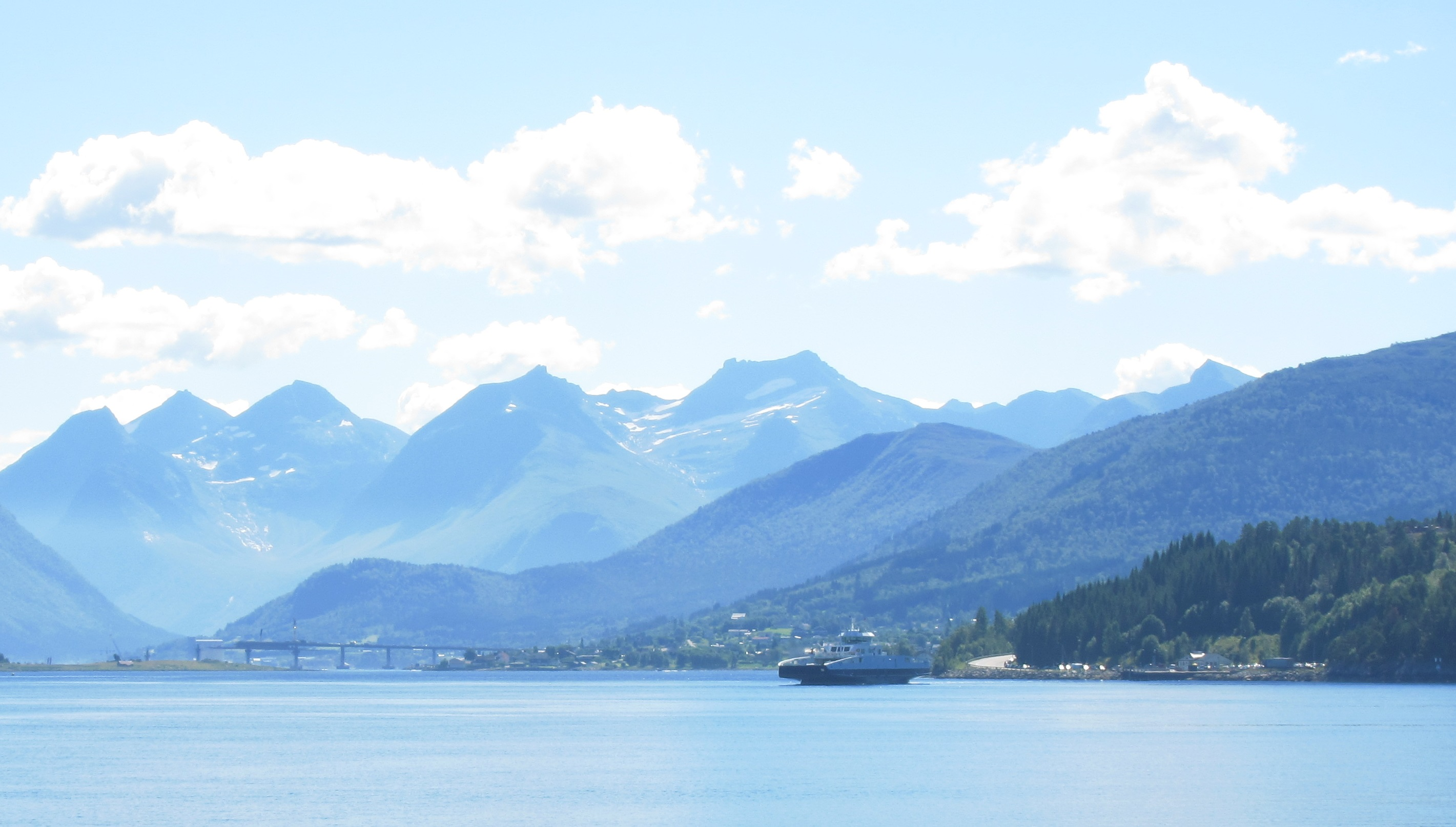 Molde-Vestnes ferry crossing at Vestnes dock, Tresfjord bridge behind.